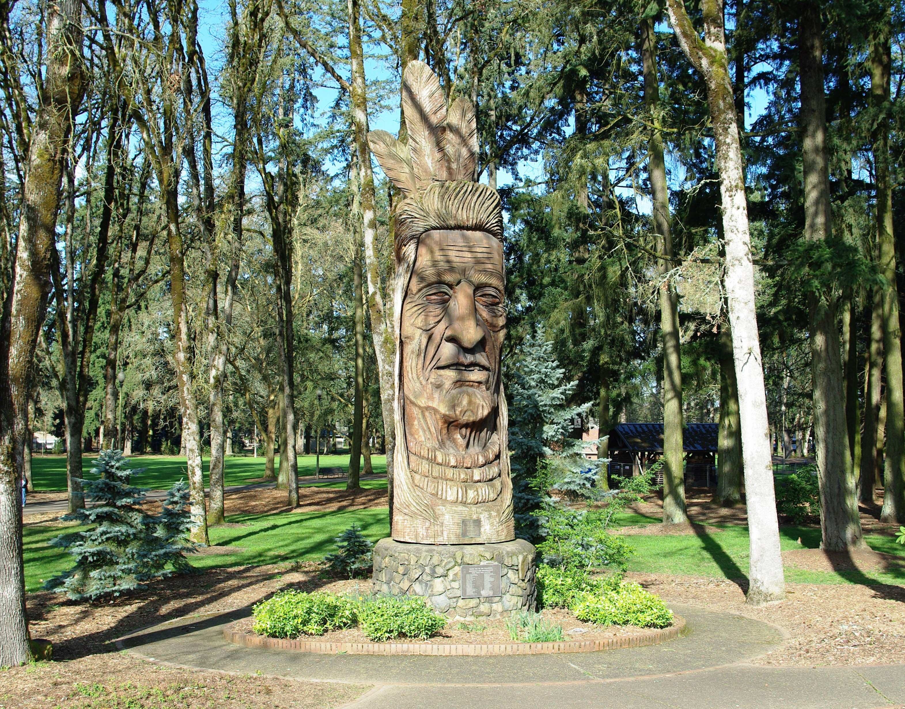 Wide view of Chief Kno-Tah in Hillsboro, Oregon, USA.